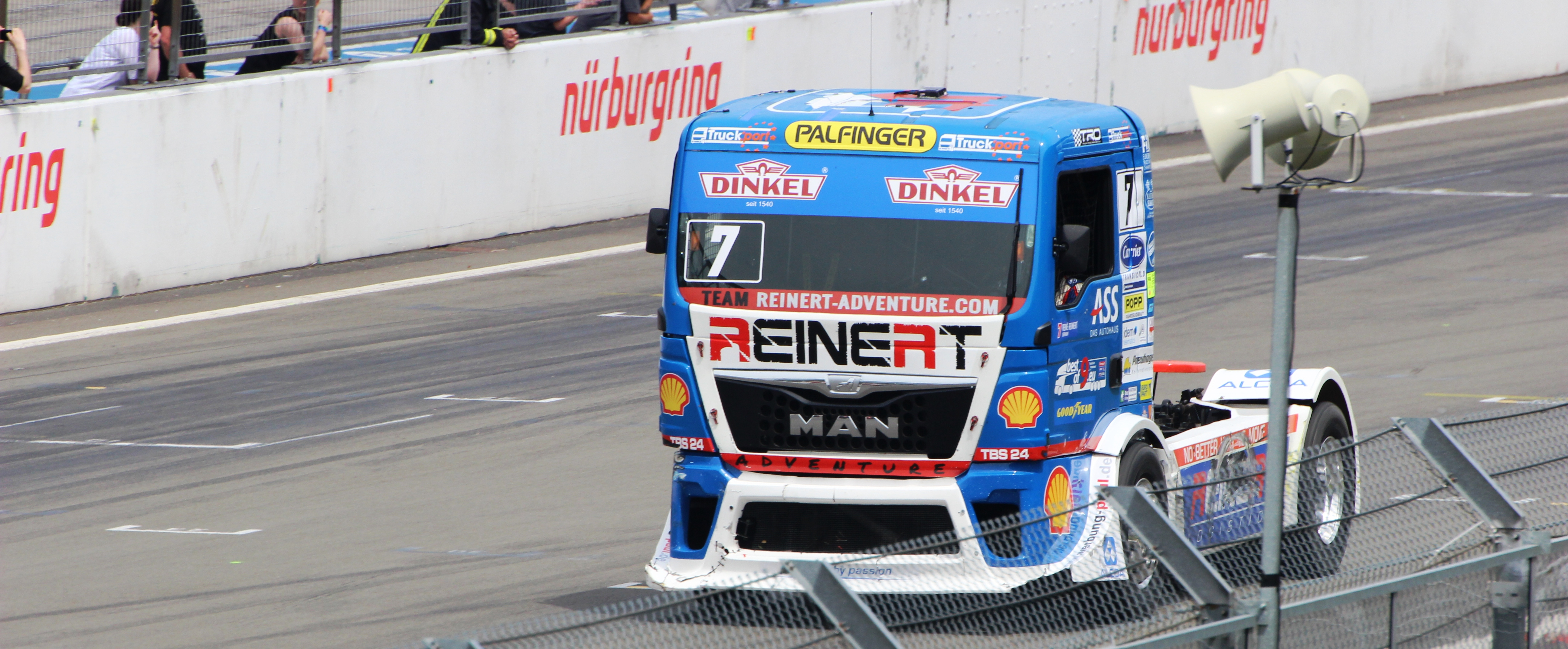 René Reinert's MAN race truck at the FIA European Truck Racing Championship 2015. Here: at the Race on Nürburgring (Germany)